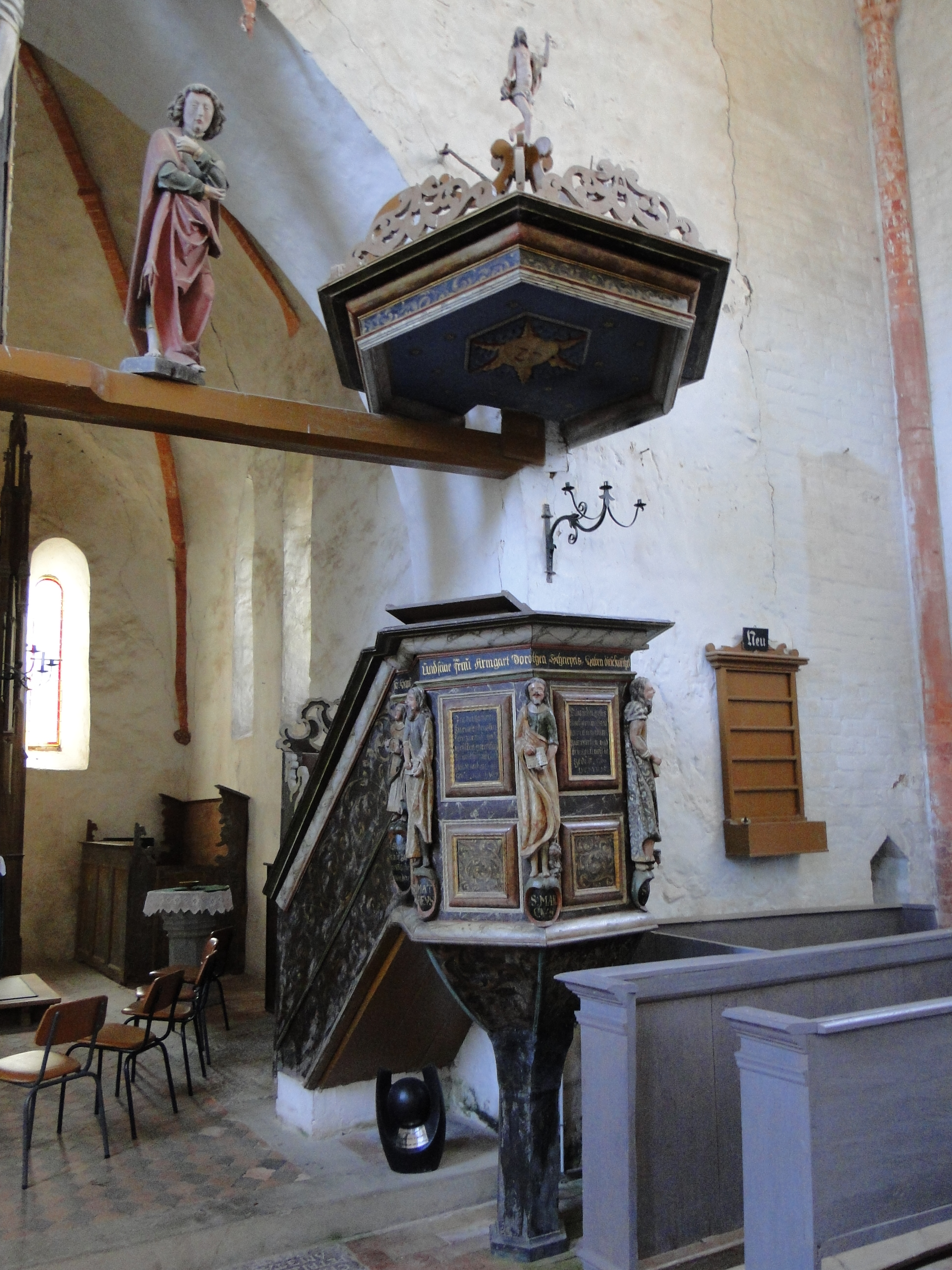 Church in Mestlin, district Ludwigslust-Parchim, Mecklenburg-Vorpommern, Germany Pulpit